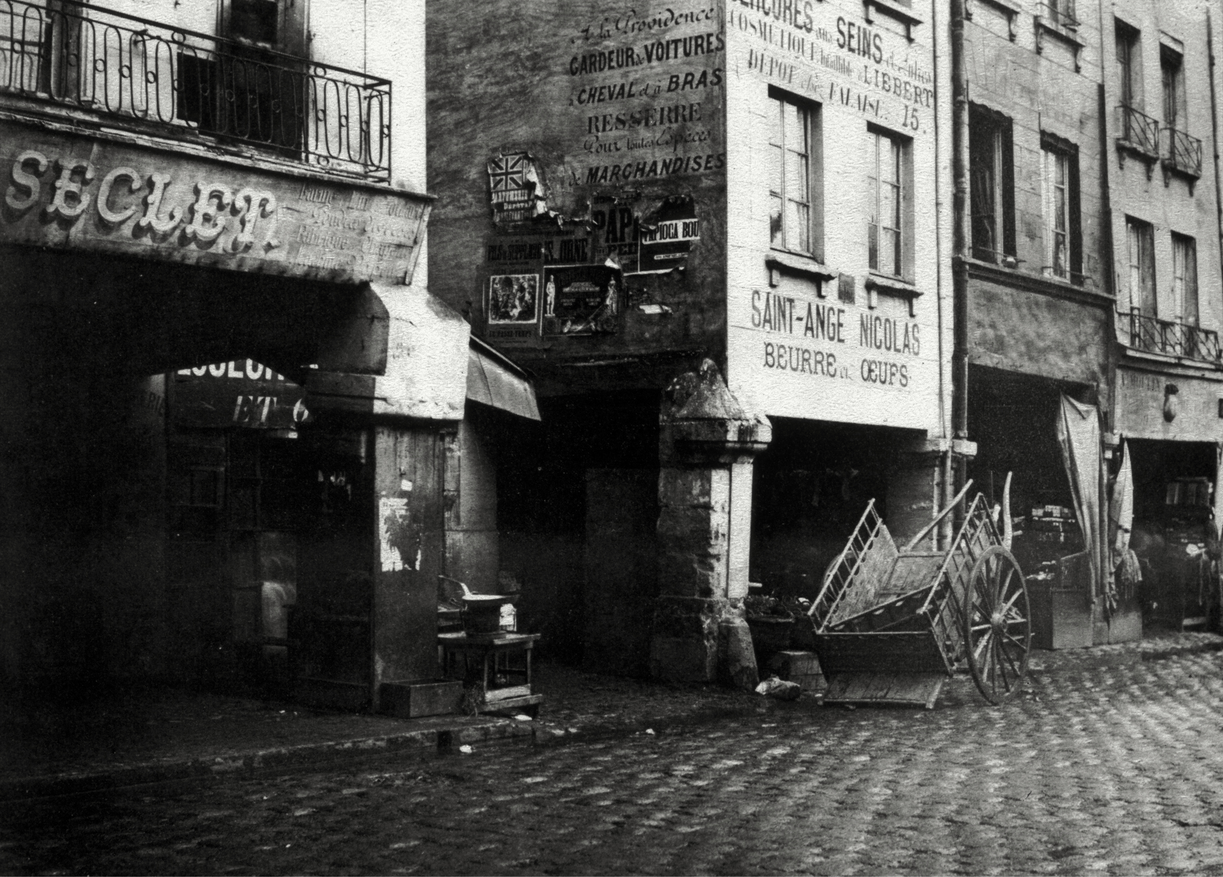 The famous Parisian market known as "les Halles" dates back to as early as the middle ages. By the 19th century, the markets at les Halles were a main source for everyday groceries and general food products. While the structures remained relatively unchanged for three centuries, the markets were destroyed and rebuilt in 1851 in an attempt to modernize the 800 year old architecture. The new design consisted of 10 pavilions, various large covered streets, and an efficient water distribution system, all of which inspired the design of other European markets. Before being destroyed in 1969, the markets of les Halles represented the heart of Paris, the central point around which many of Haussmann's new boulevards were designed. This photograph was taken in 1855 by Charles Marville, a photographer well-known for capturing images of the older Parisian quarters prior to urbanization. In 1850, Marville was hired by the city of Paris to document the changes brought on during the demolition and reconstruction of the Haussmann era.